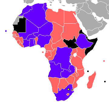 Status of countries with respect to 2013 Africa Cup of Nations: Qualified for ACN finals Failed to qualify for ACN finals Did not enter ACN Not an associate member of CAF